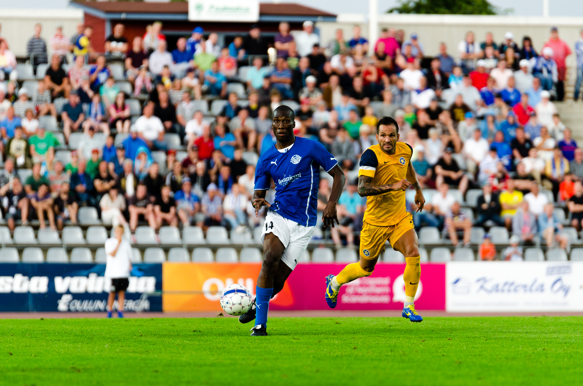 Jamal Gay (blue jersey) in RoPS - Asteras Tripolis match on 17th of July 2014.